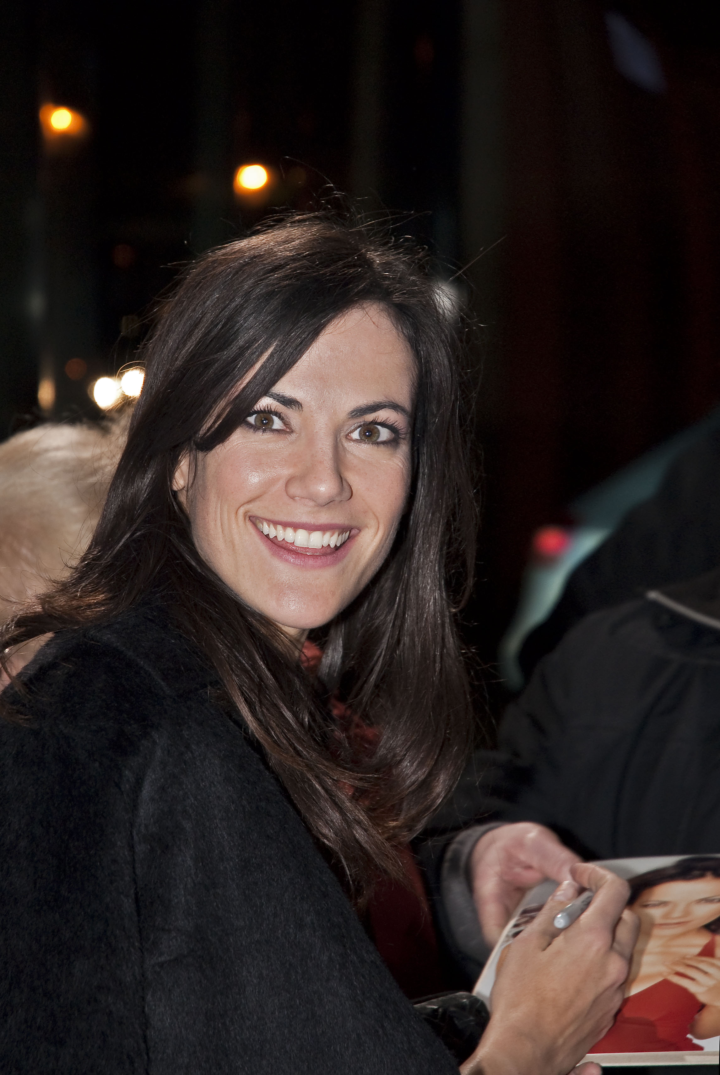 Bettina Zimmermann, German actress Volkswagen People’s Night 2008